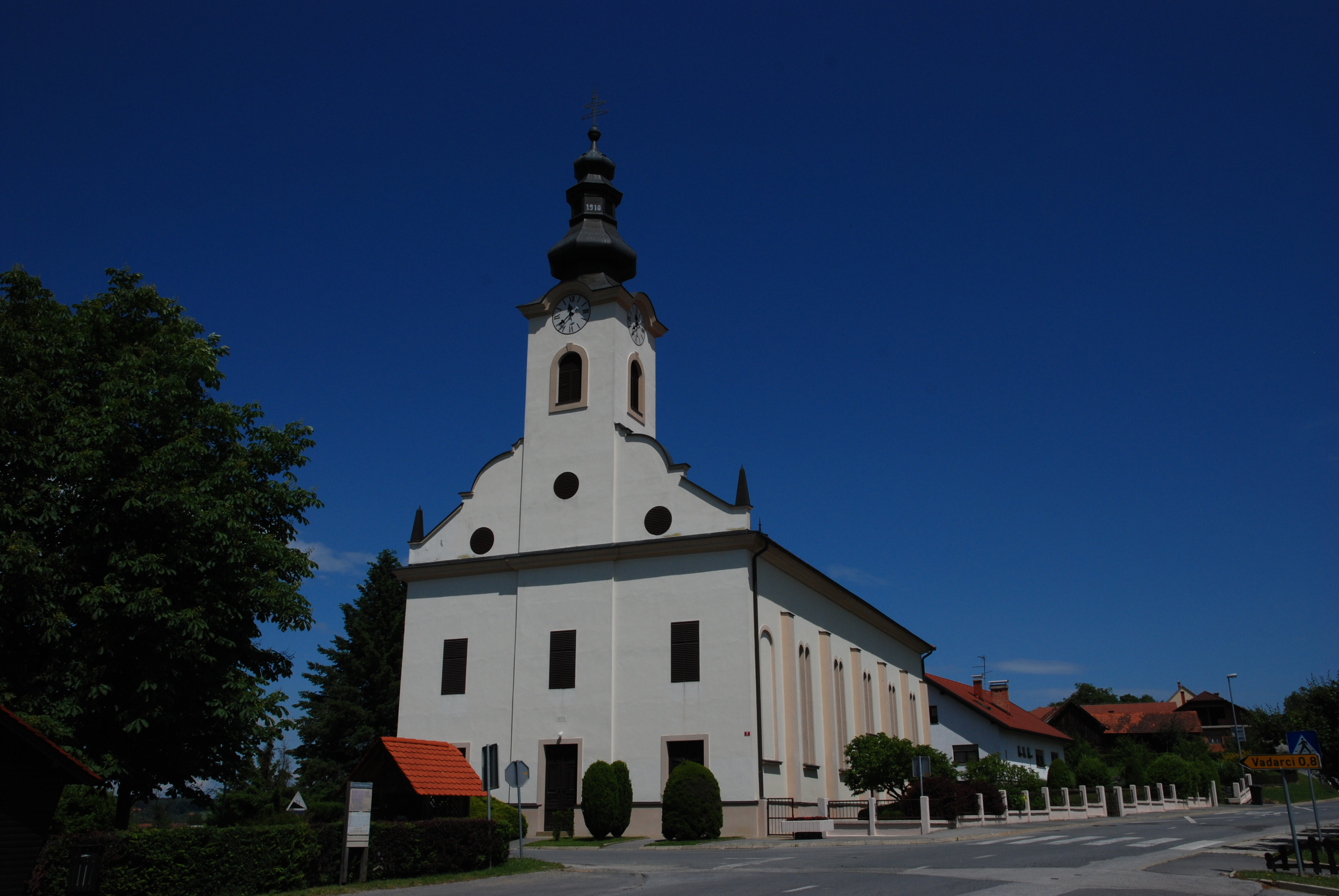 Evang. Church Bodonci